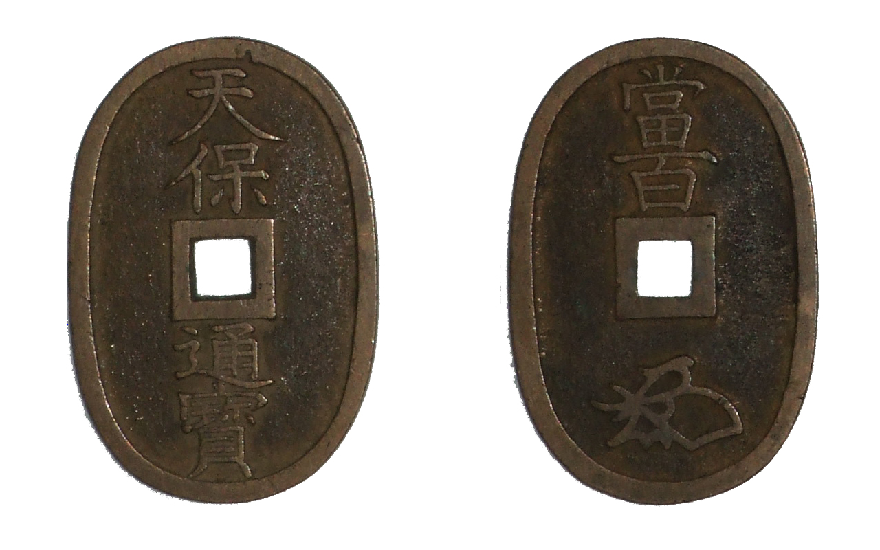 Tenpo-tsuho-kokaku